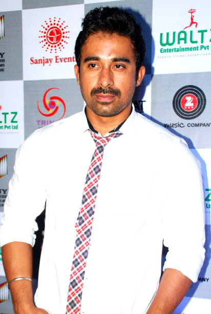 Rannvijay Singh at audio release of Sharafat Gayi Tel Lene.